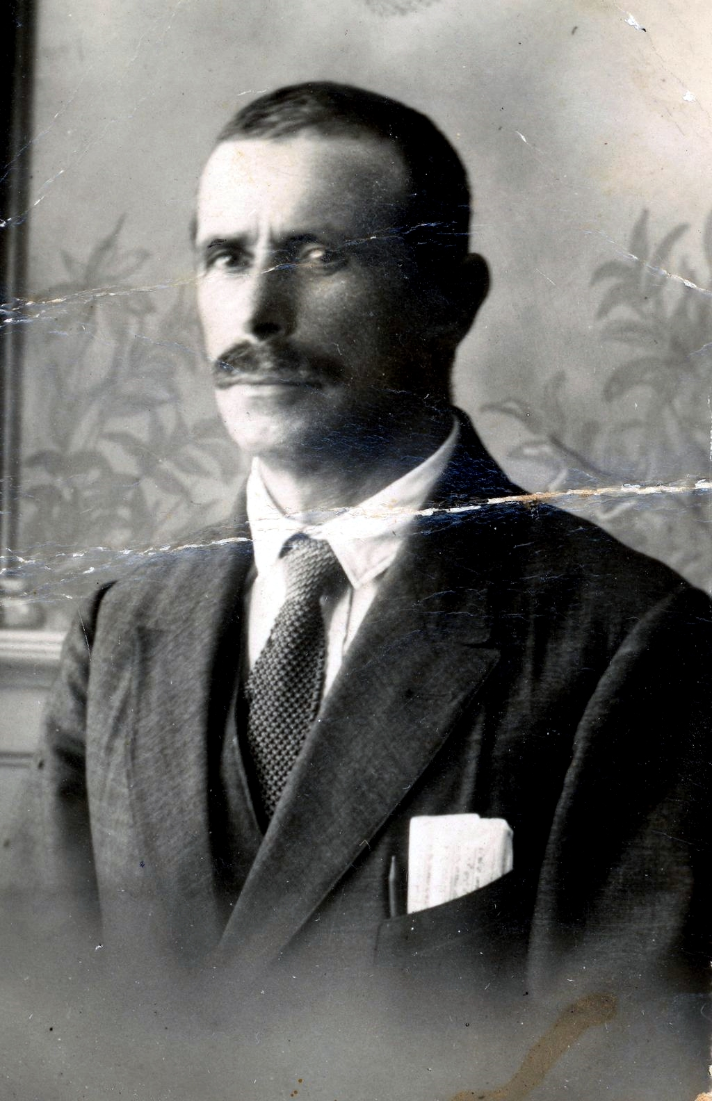 Musical composer of the Israeli National Anthem, the Hatikvah.